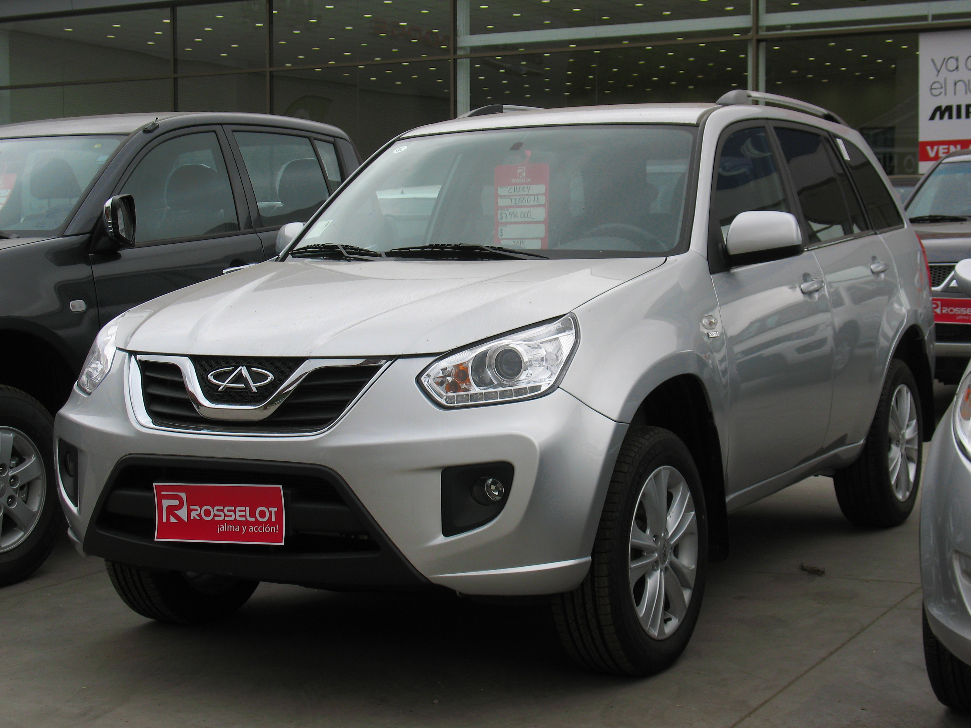 Chery Tiggo 1.6 2014